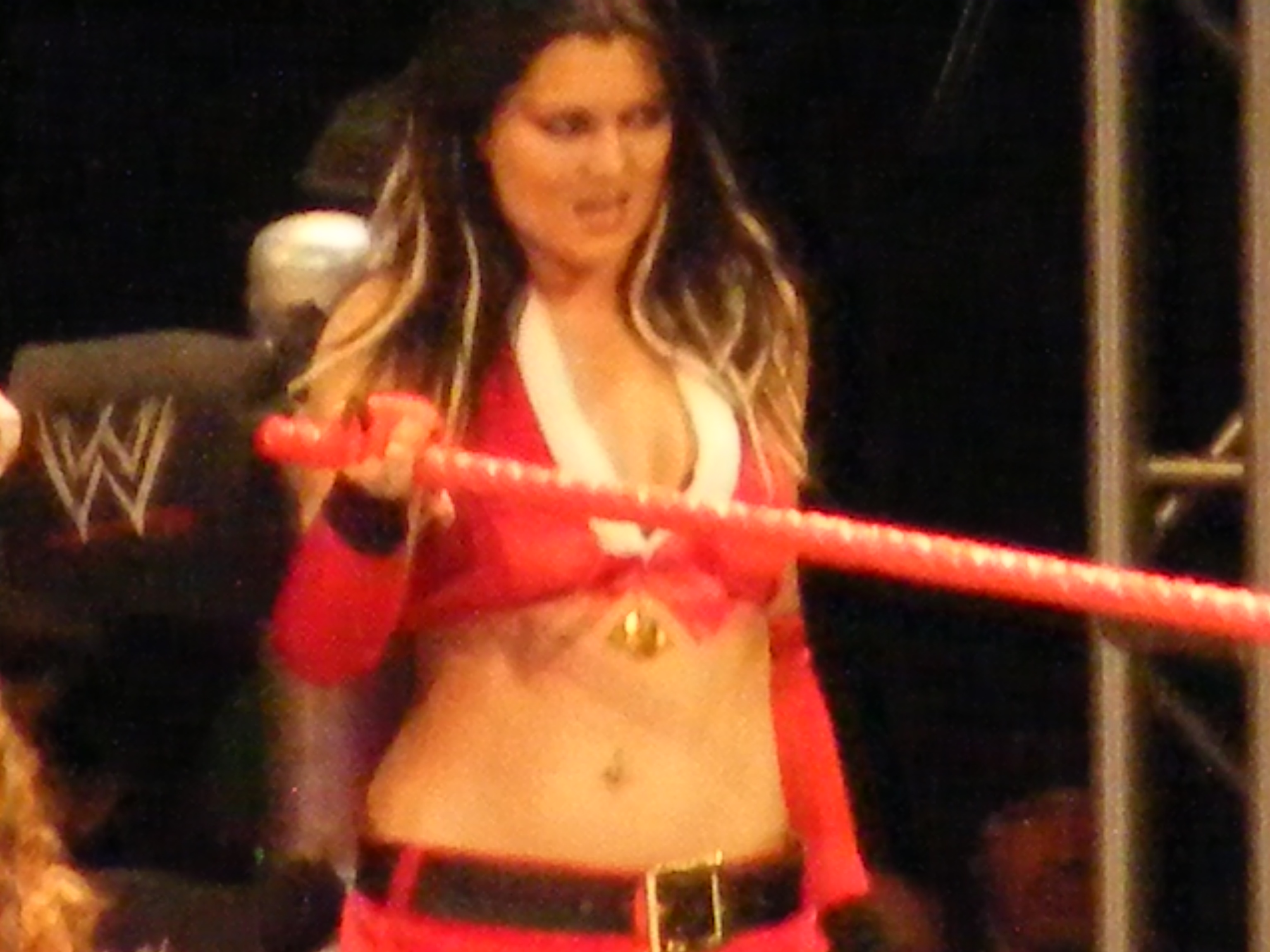 Professional wrestler Katie Lea Burchil (real name Katarina Waters) in a Santa's Little Helper match at a WWE show in Syracuse on December 30, 2009.